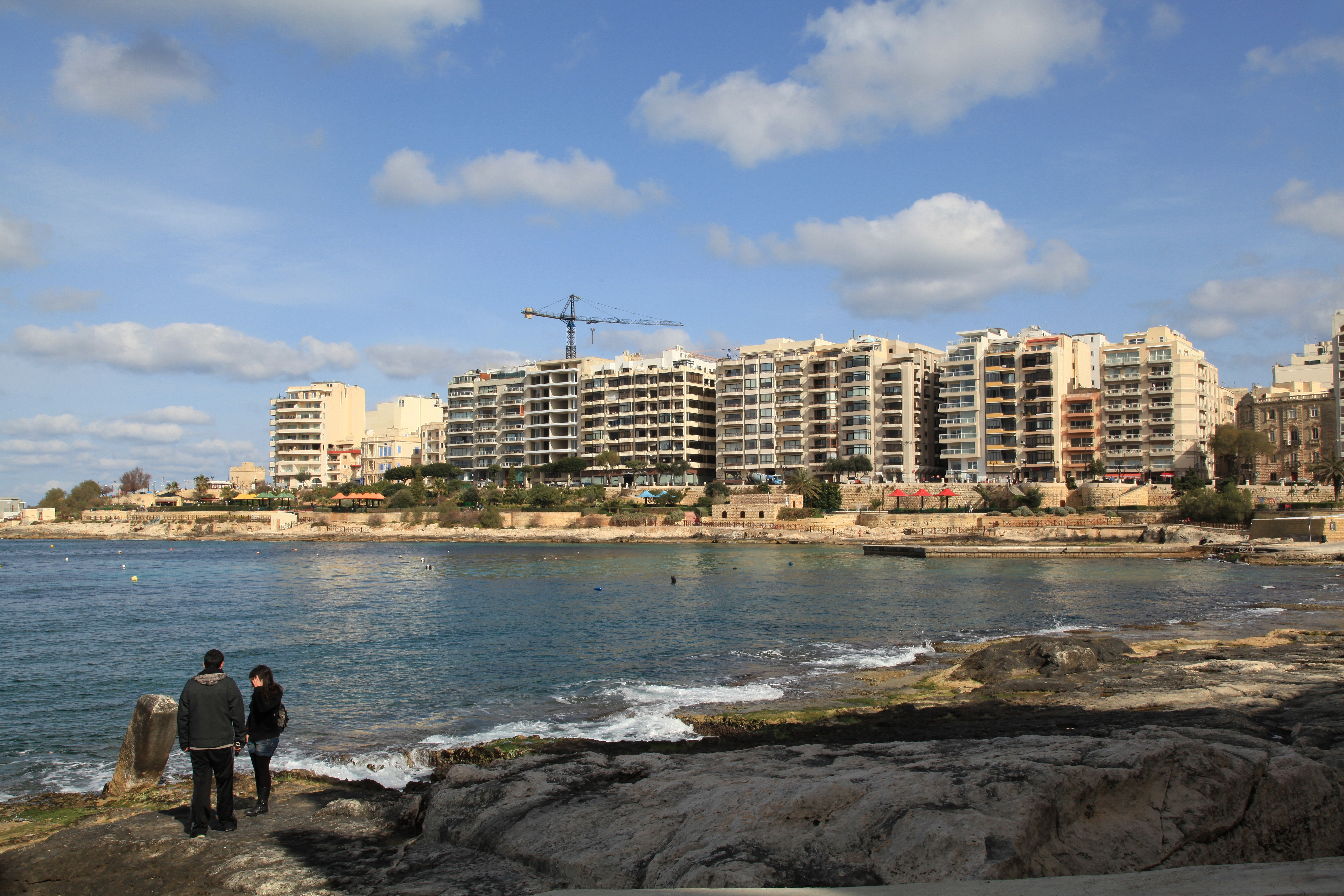 Ġnien l-Indipendenza and Triq it-Torri in Sliema, Malta